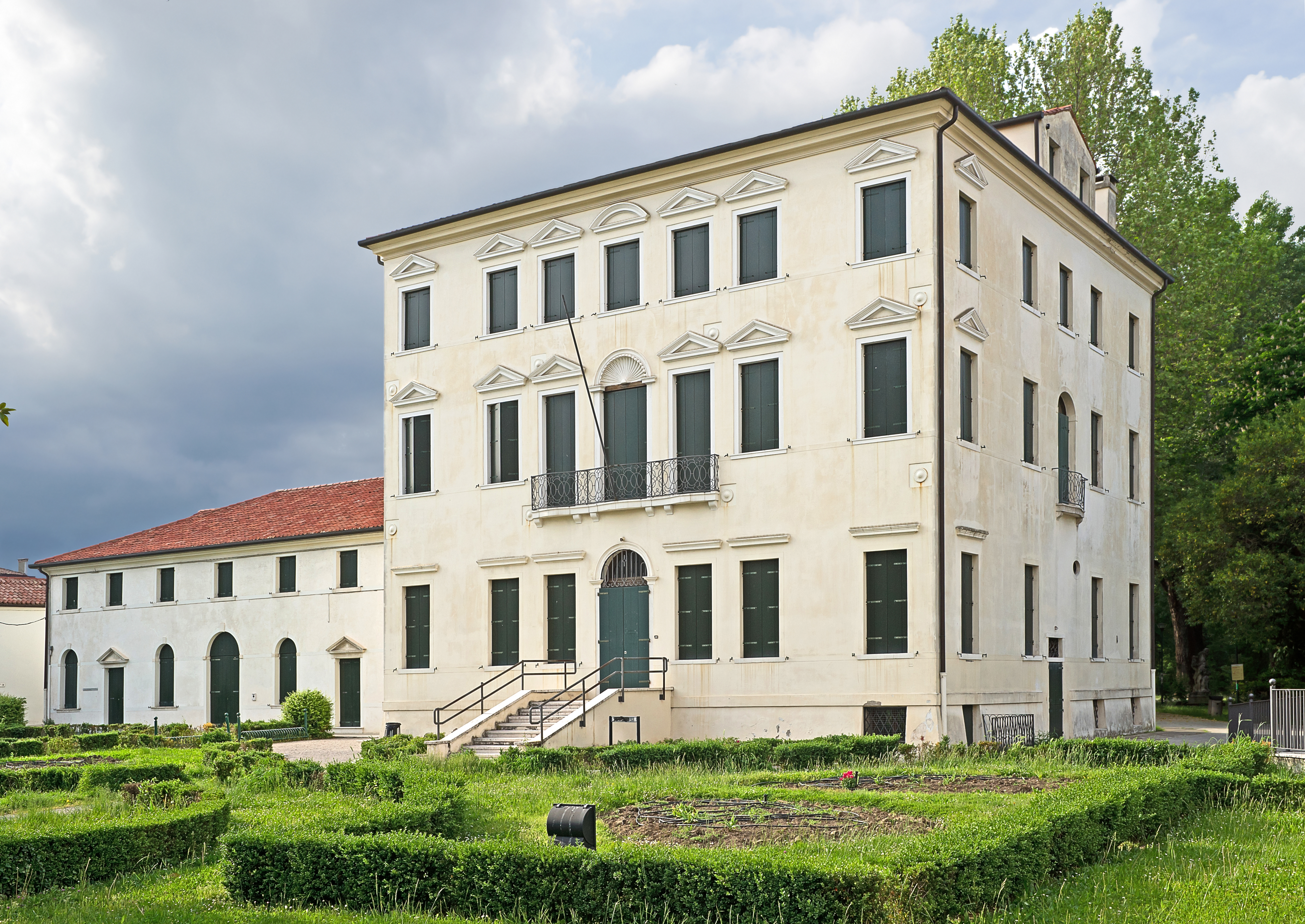 The Villa Querini, Mestre.